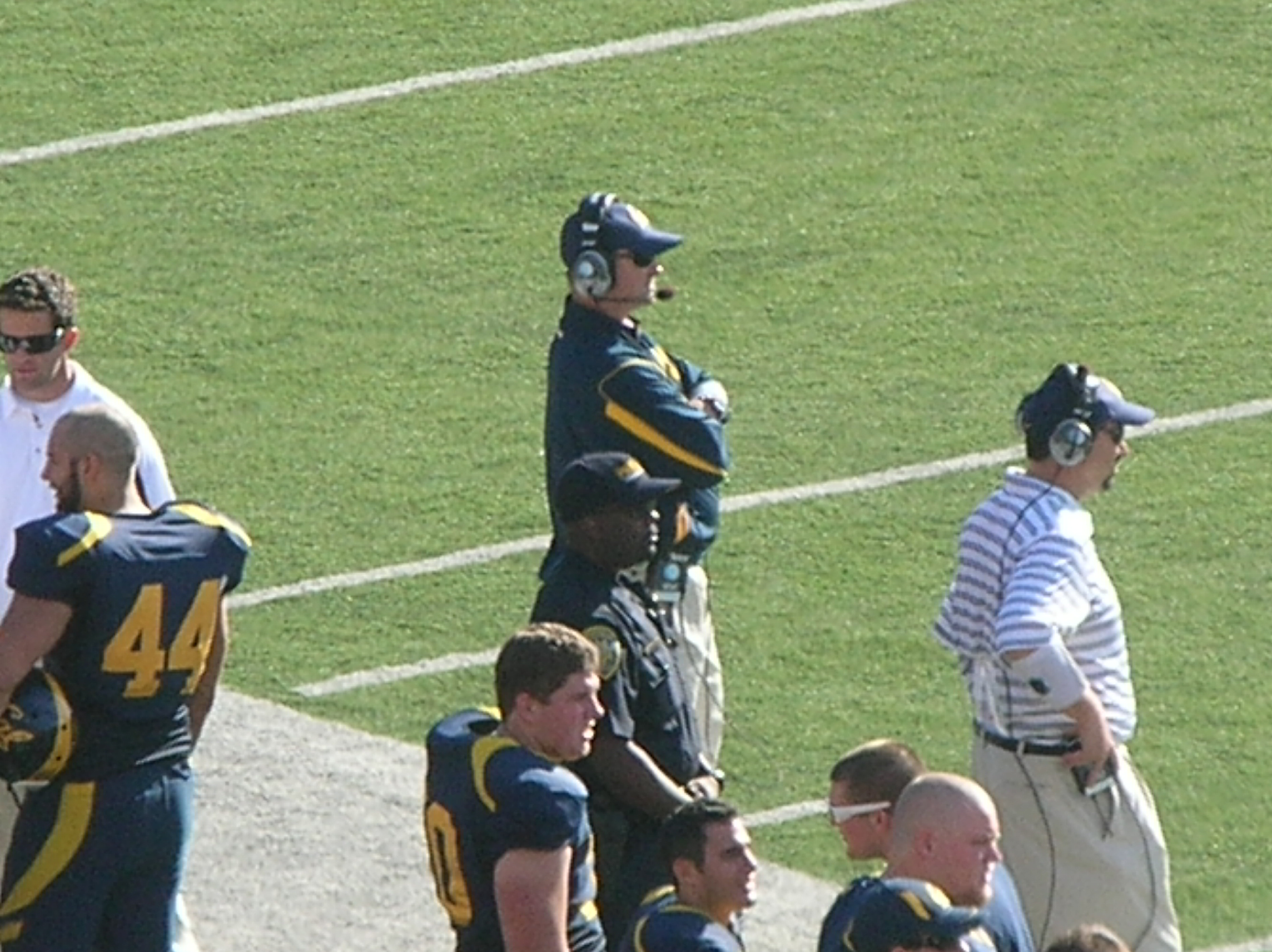 Cal head coach Jeff Tedford (center) on the sidelines during the 2008 Big Game. The Golden Bears won 37-16.